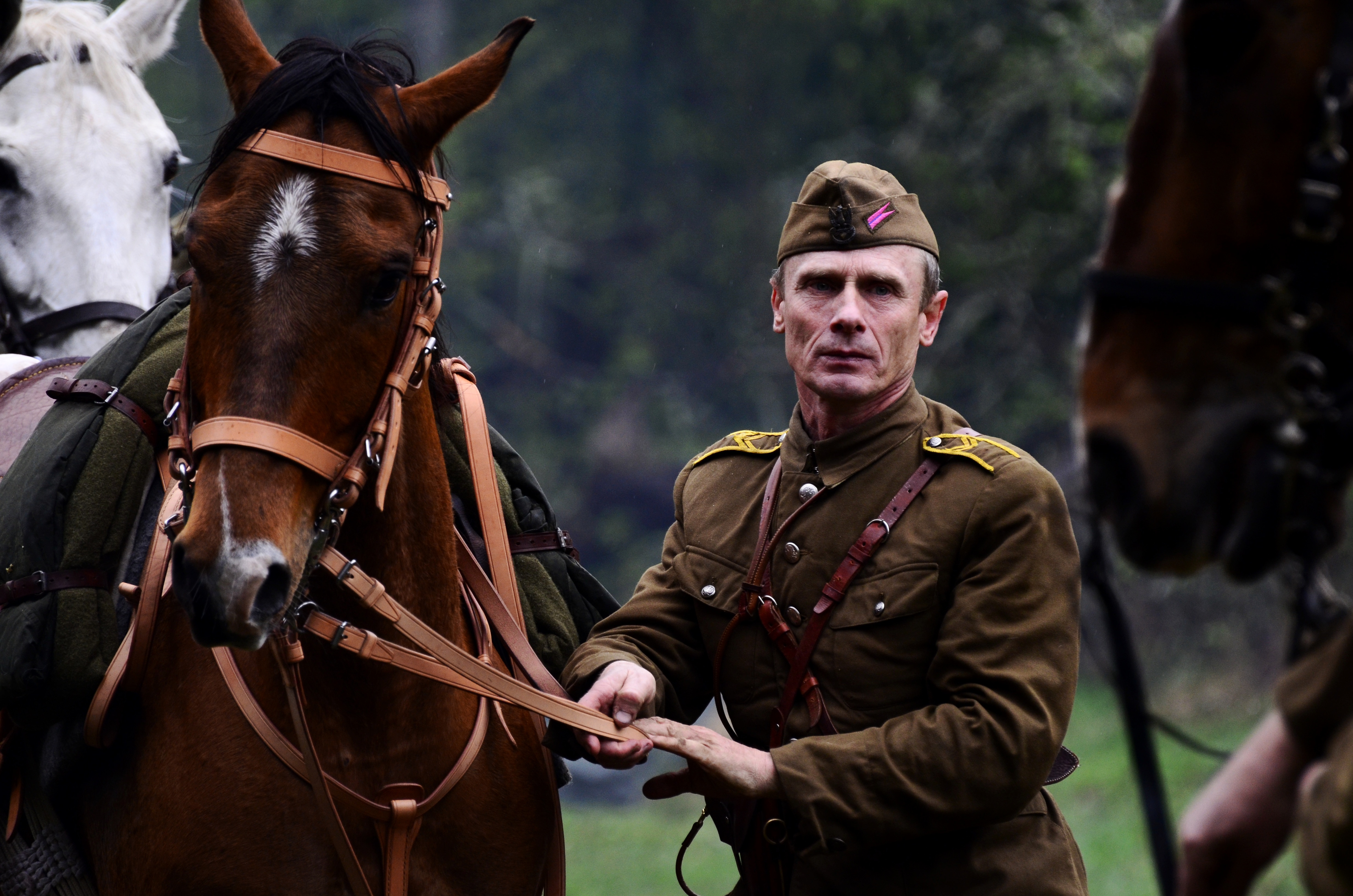 Polish Soldier reenactor with horses